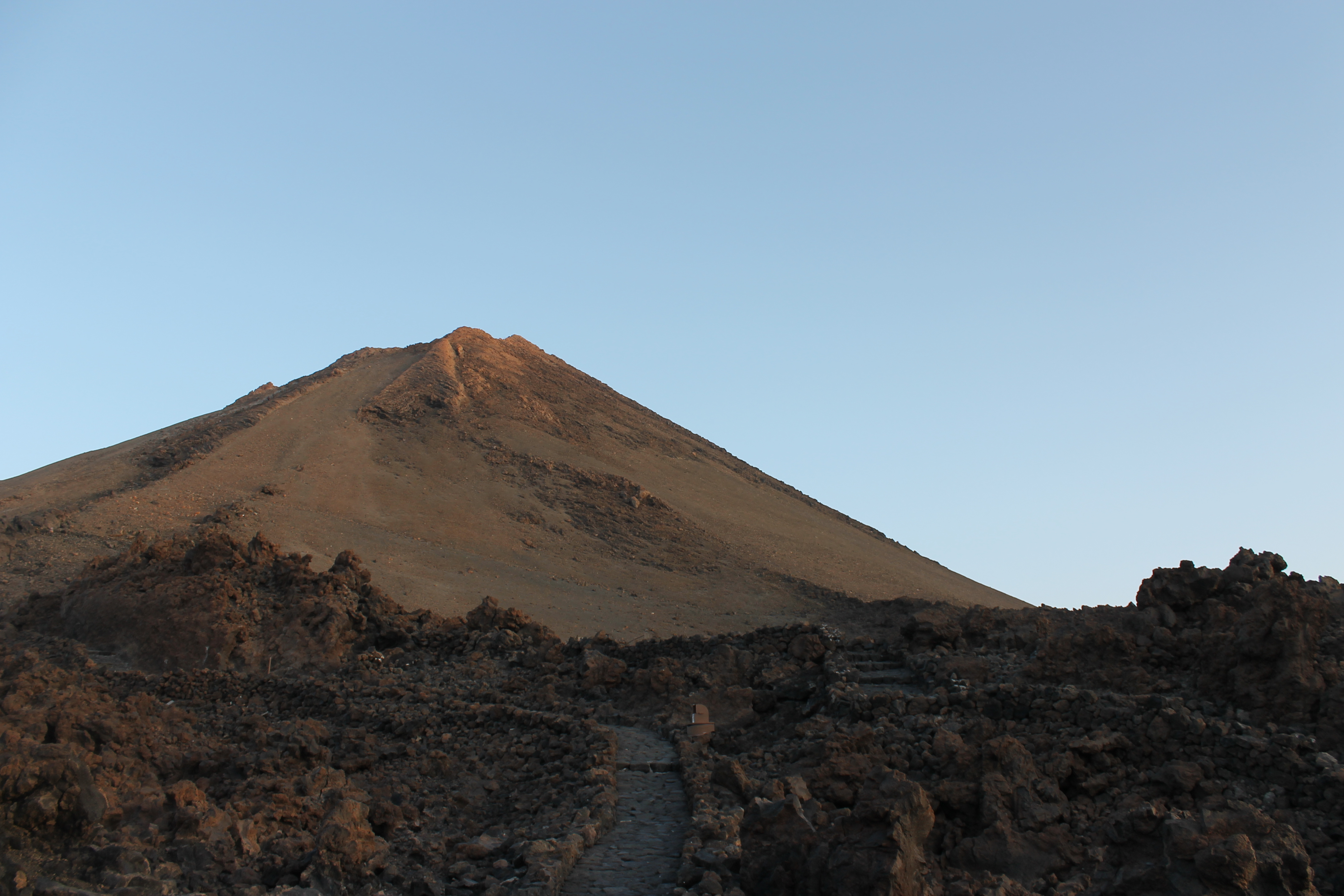 Pan de Azúcar, the las part of Mount Teide